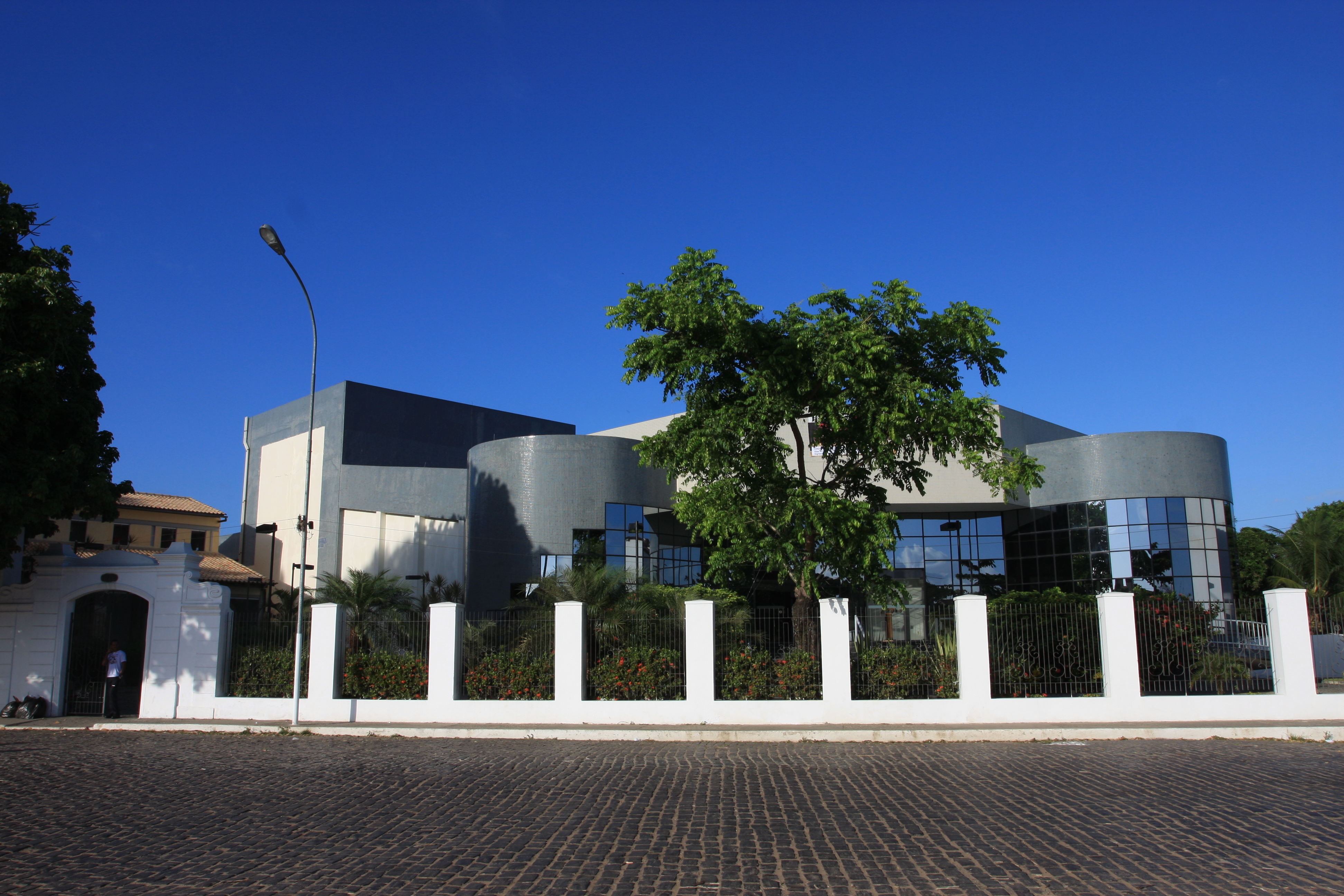 Theater